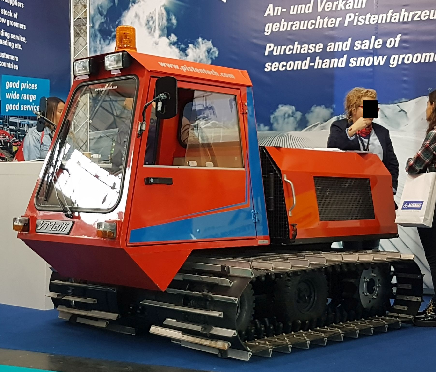 Meili AG snow groomer VM500 at the Interalpin, exhibition in Innsbruck in Tyrol, Austria.